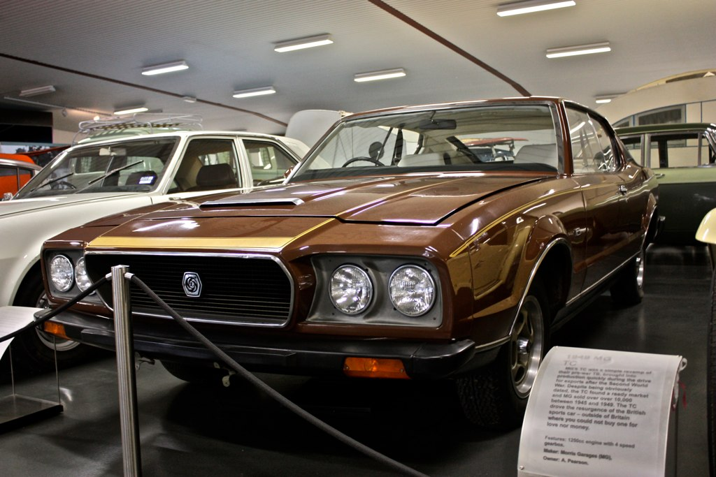 Leyland Force 7 in brown built in Adelaide, South Australia